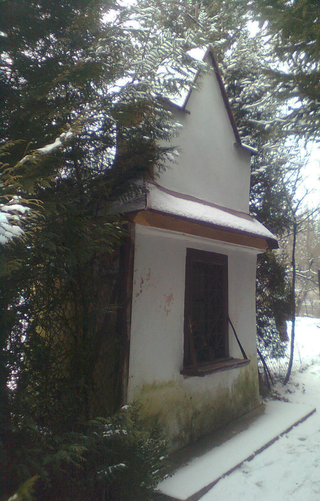 Wayside shrine of Saint Kinga of Poland in Podegrodzie (Lesser Poland Voivodeship)